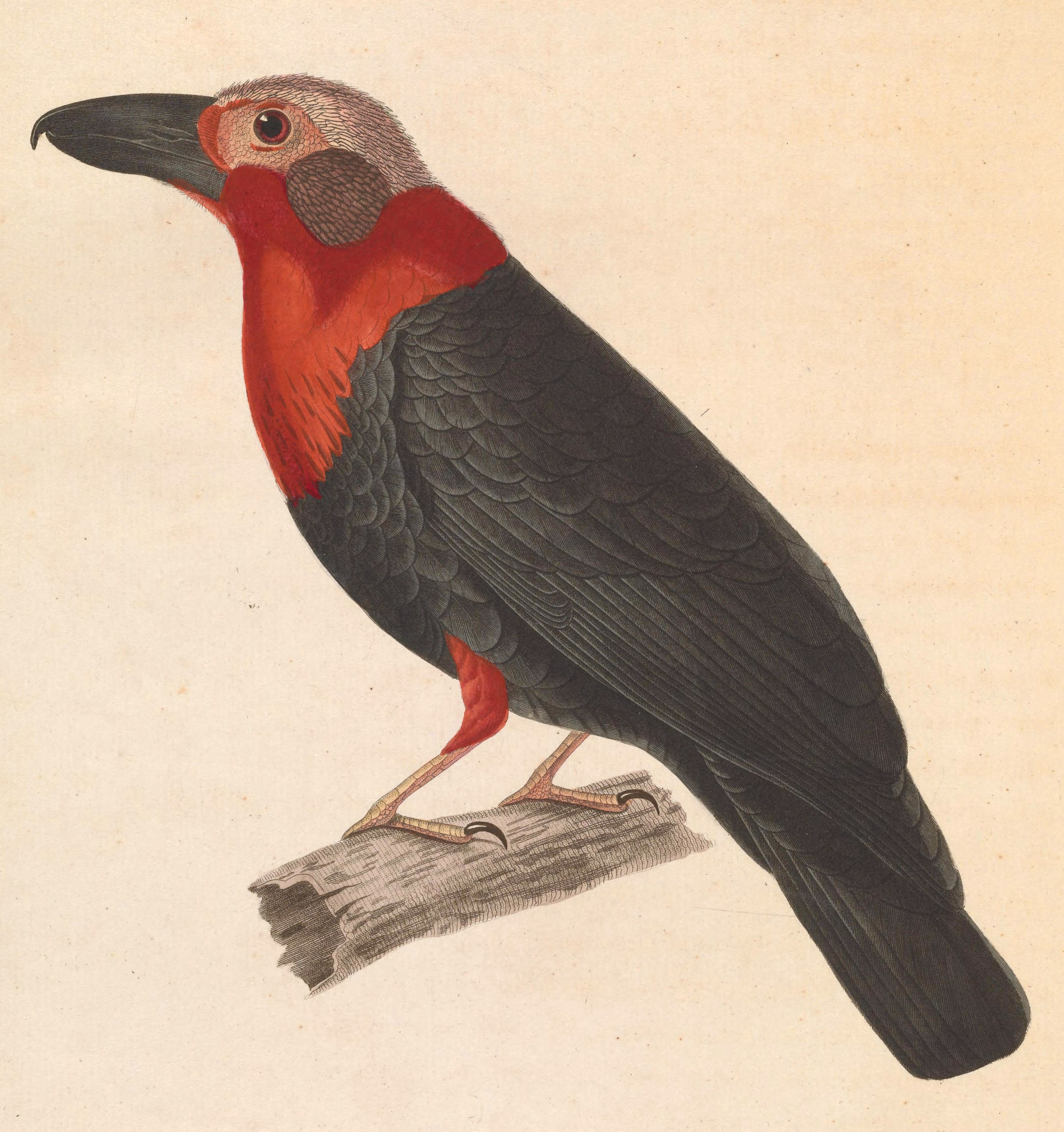 « Barita gymnocephala » = Pityriasis gymnocephala (Bornean Bristlehead) - adult